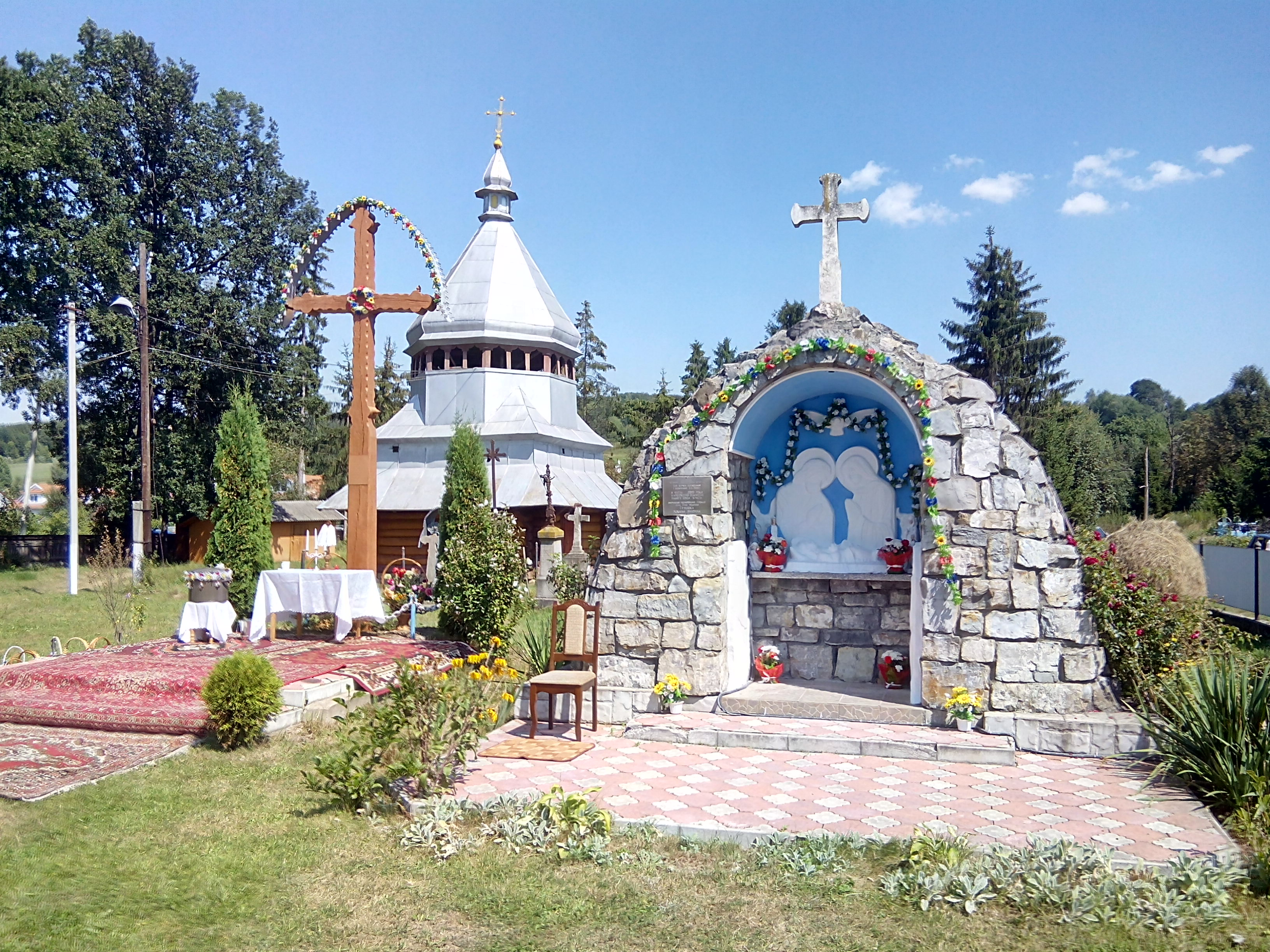 Yard of the church in the village of Spas, Kolomyia Raion, Ivano-Frankivsk Oblast, Ukraine